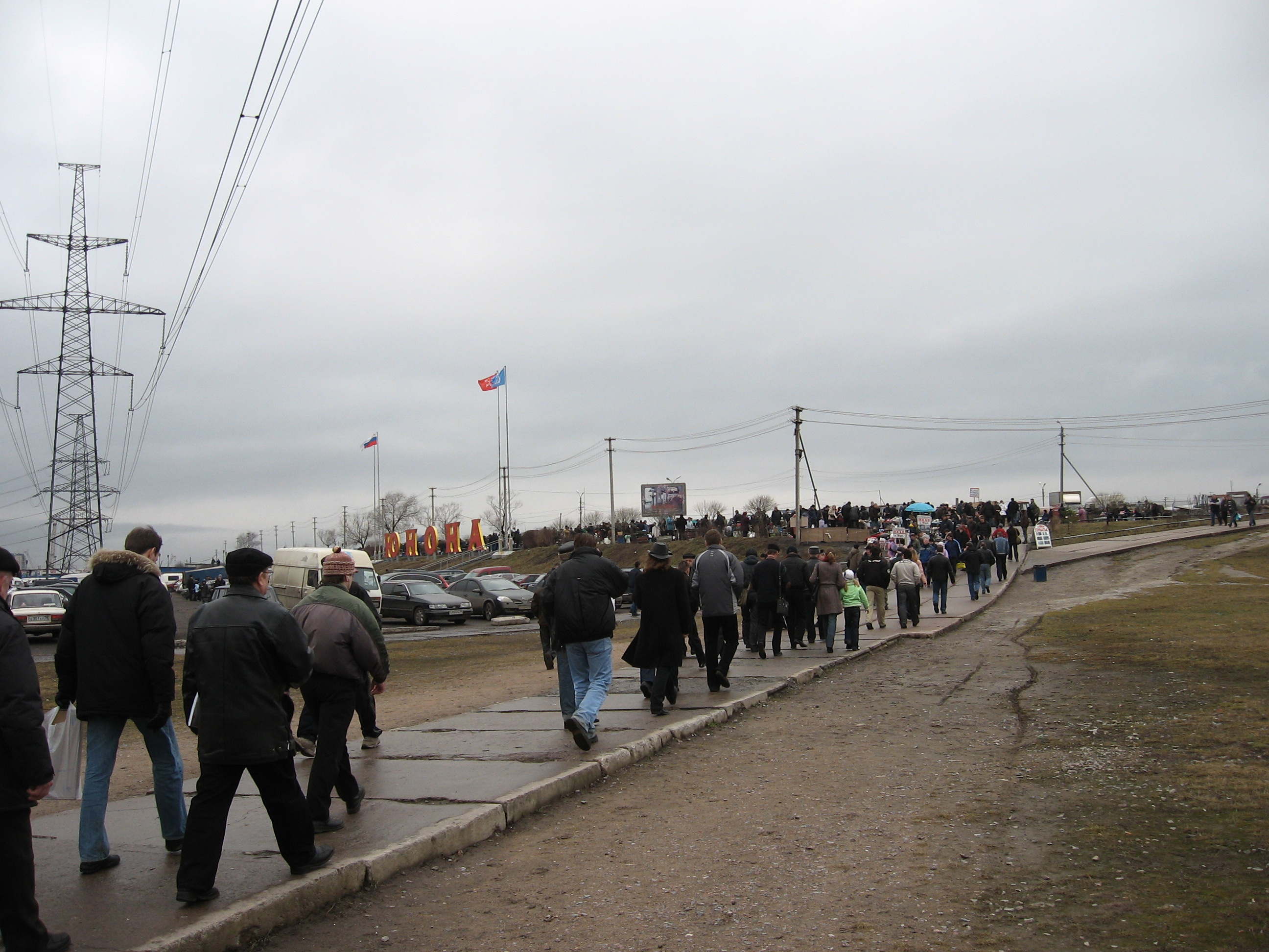 Category:Flea market "Unona", St.Petersburg, Russia